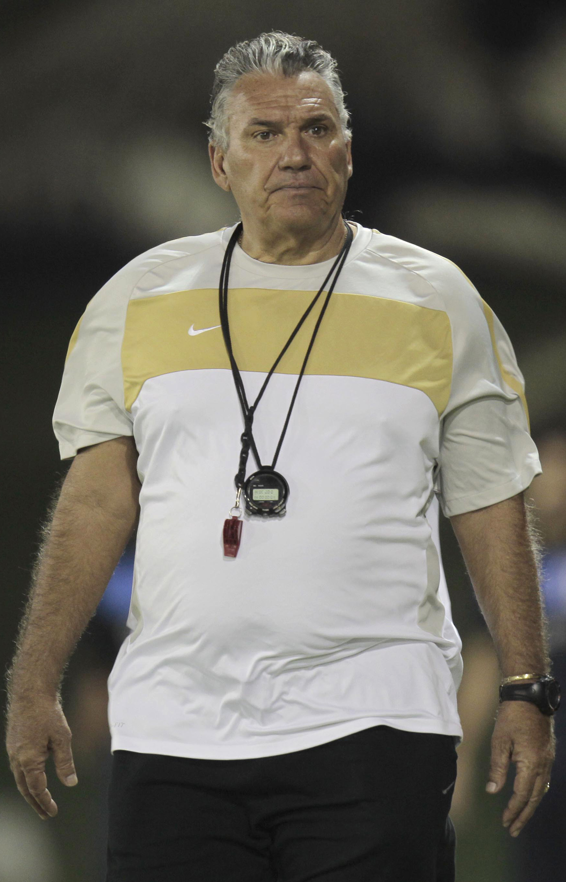 Qatar national team coach Sebastião Lazaroni during a team training session. Pic by Mohan